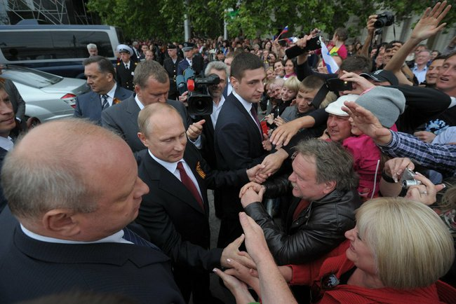 After gala concert to mark the 69th anniversary of Victory in the Great Patriotic War and 70th anniversary of the liberation of Sevastopol from Nazis.